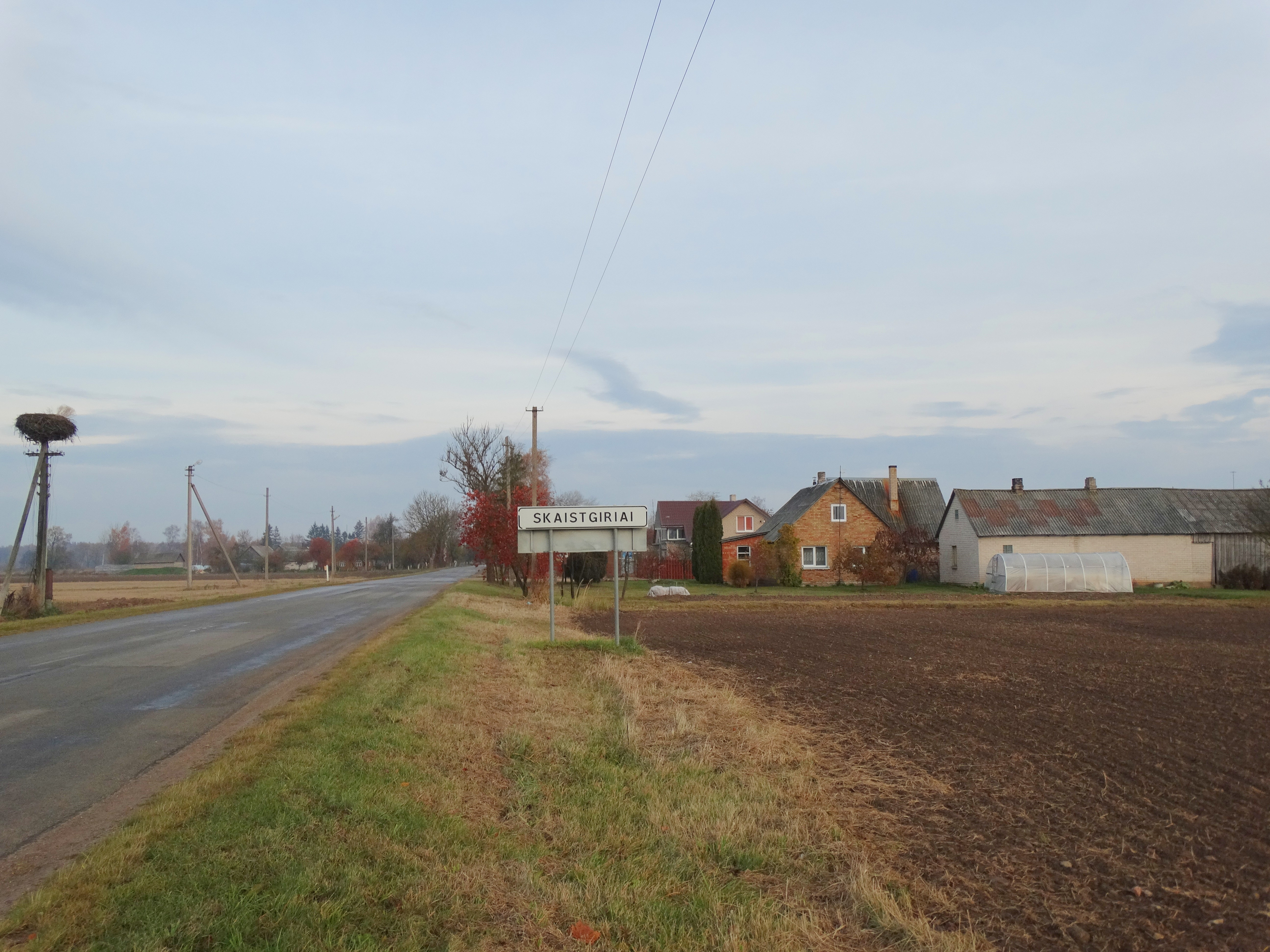 Skaistgiriai, Panevėžys district, Lithuania